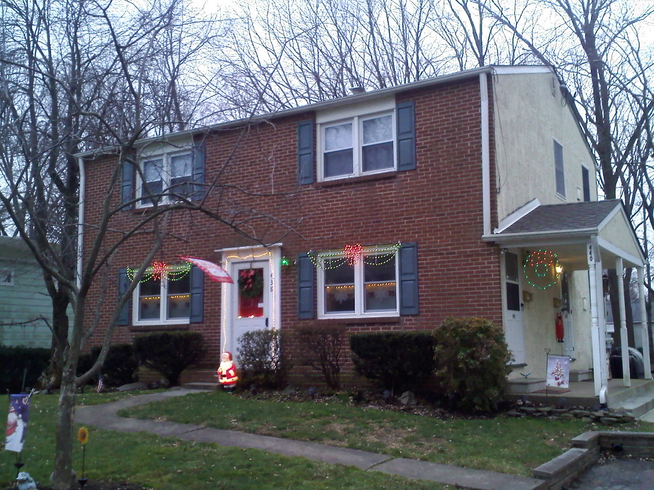 This is an over and under house type of duplex house in Eastern Pennsylvania.